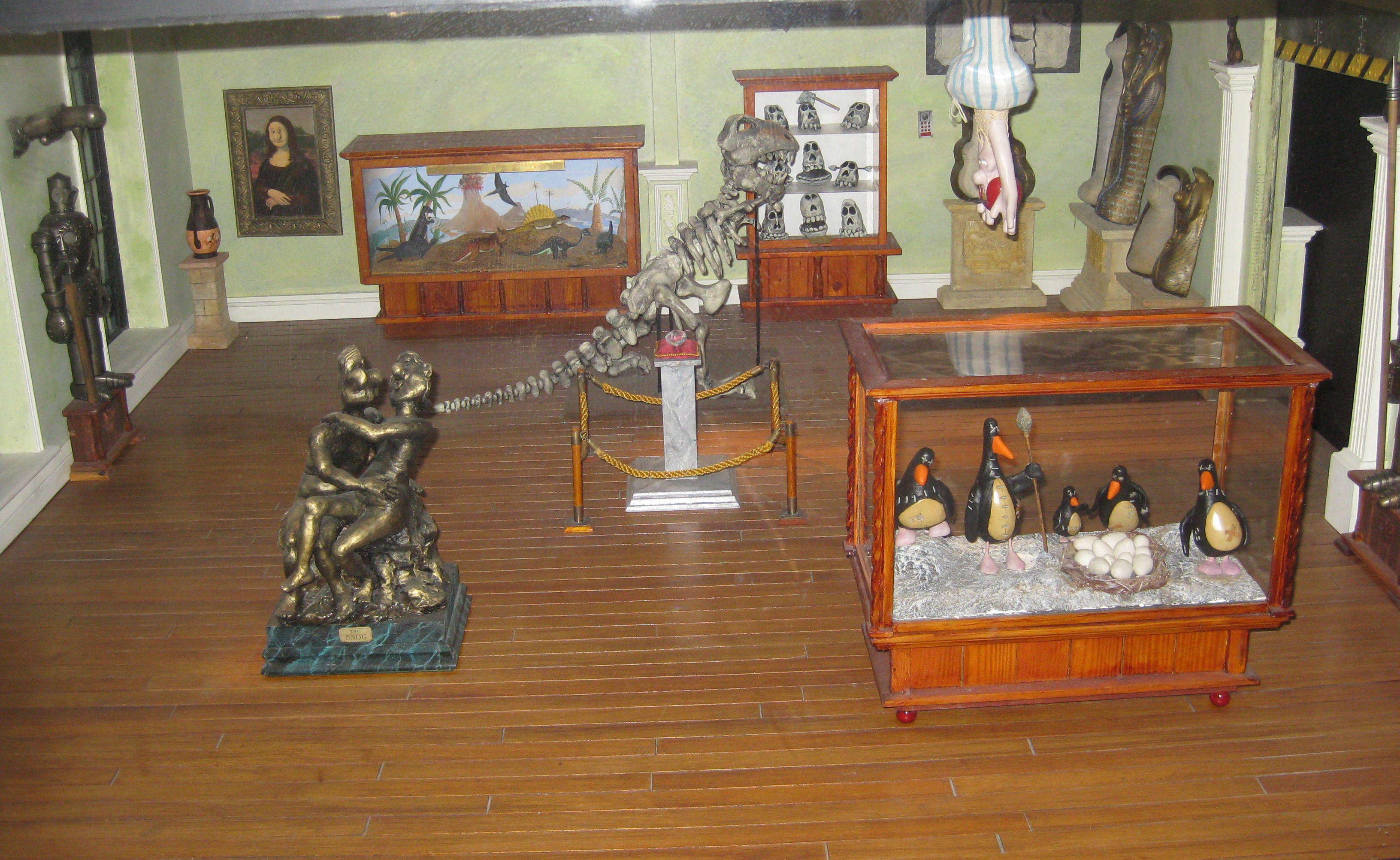 The only surviving set from the film The Wrong Trousers, on display at the National Media Museum, Bradford, 2016. Others were destroyed in a fire in 2005. Cropped from original.